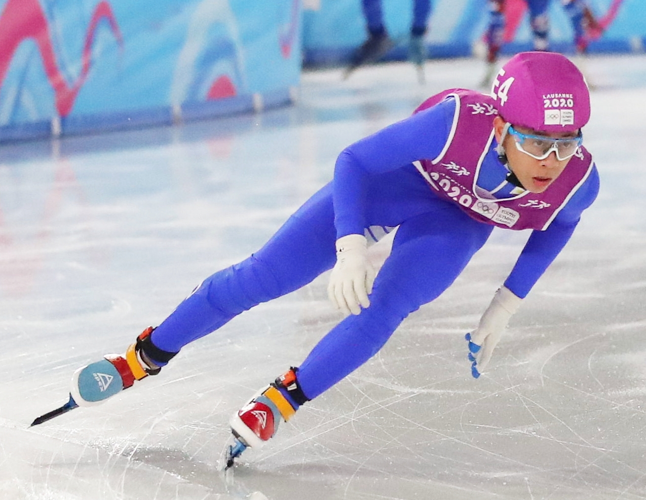 Semifinal 1 of the Short Track Speed Skating – Mixed NOC Team Relay at the 2020 Winter Youth Olympics in Lausanne on 22 January 2020.